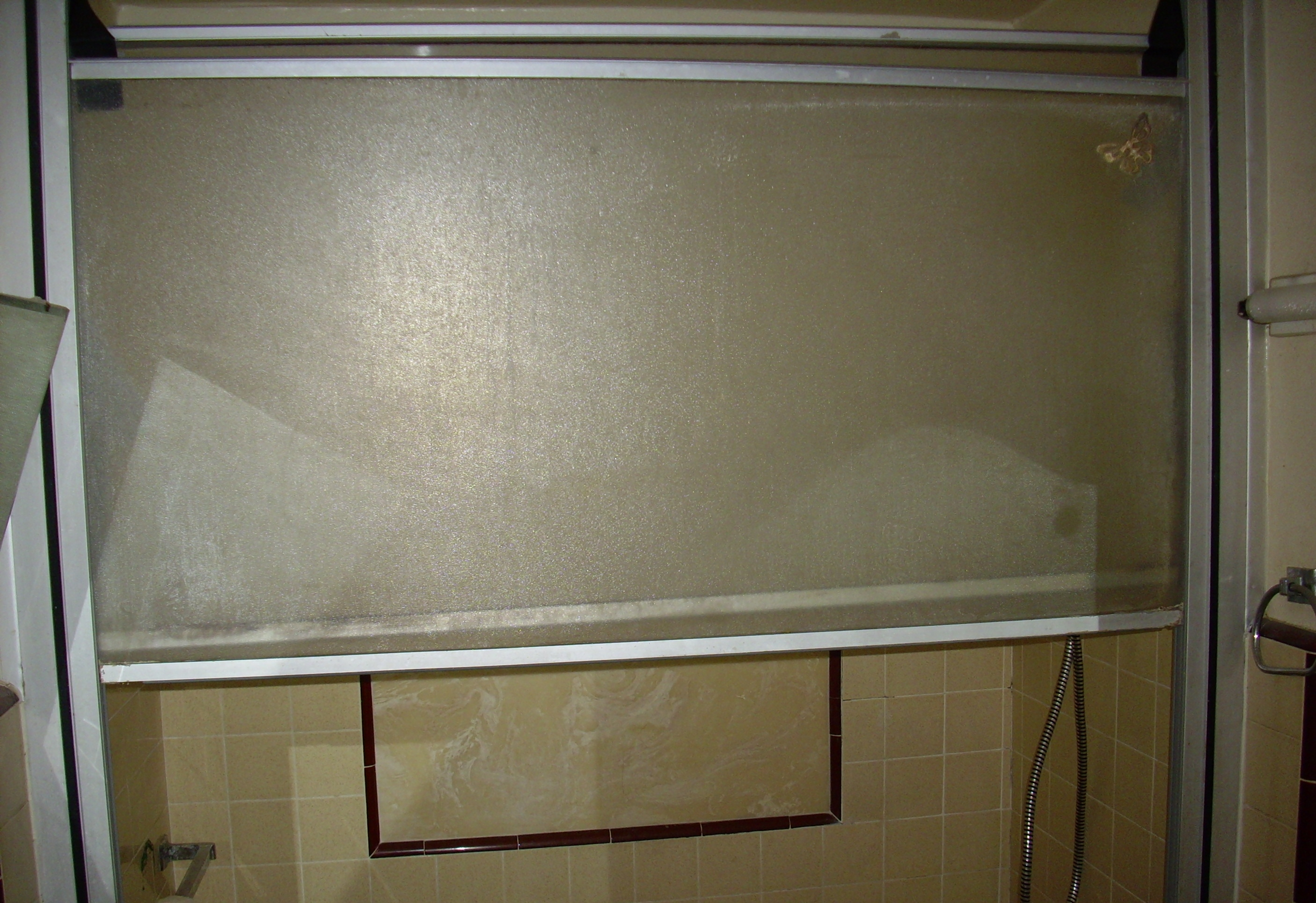 Raisable shower door for the aged and other handicapped. It has about 5’3” clearance. It fits bathrooms too small for shower doors that open and handicapped tubs that need the entire side of the tub available. However, after the rope inside the frame breaks from age, the curtain won't stay up. The door seems not to be made anymore, so can not get replacement parts, such as when the curtain cracks from someone falling into it. This raisable shower door was manufactured in Los Angeles county, California, United States. It brand name is Up-N-Away bathtub enclosure.